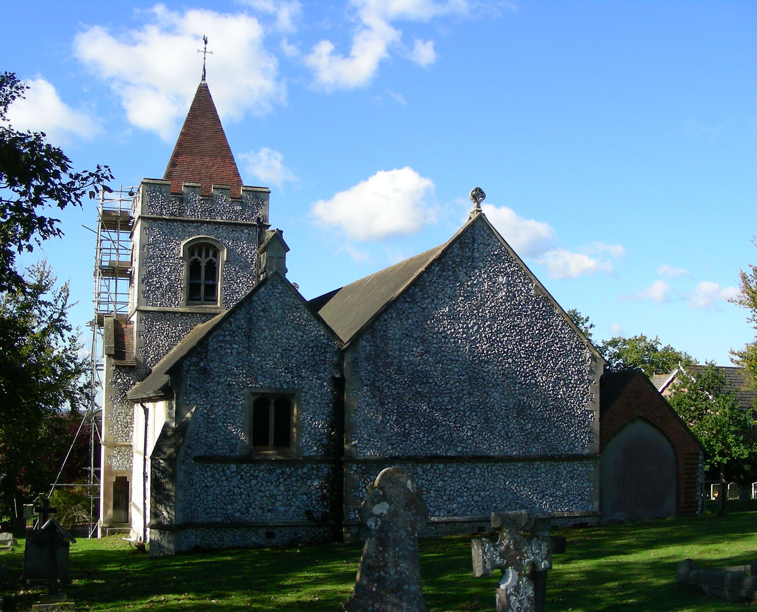 St Mary the Virgin parish church, Church Road, Buxted, East Sussex, England, seen from the east